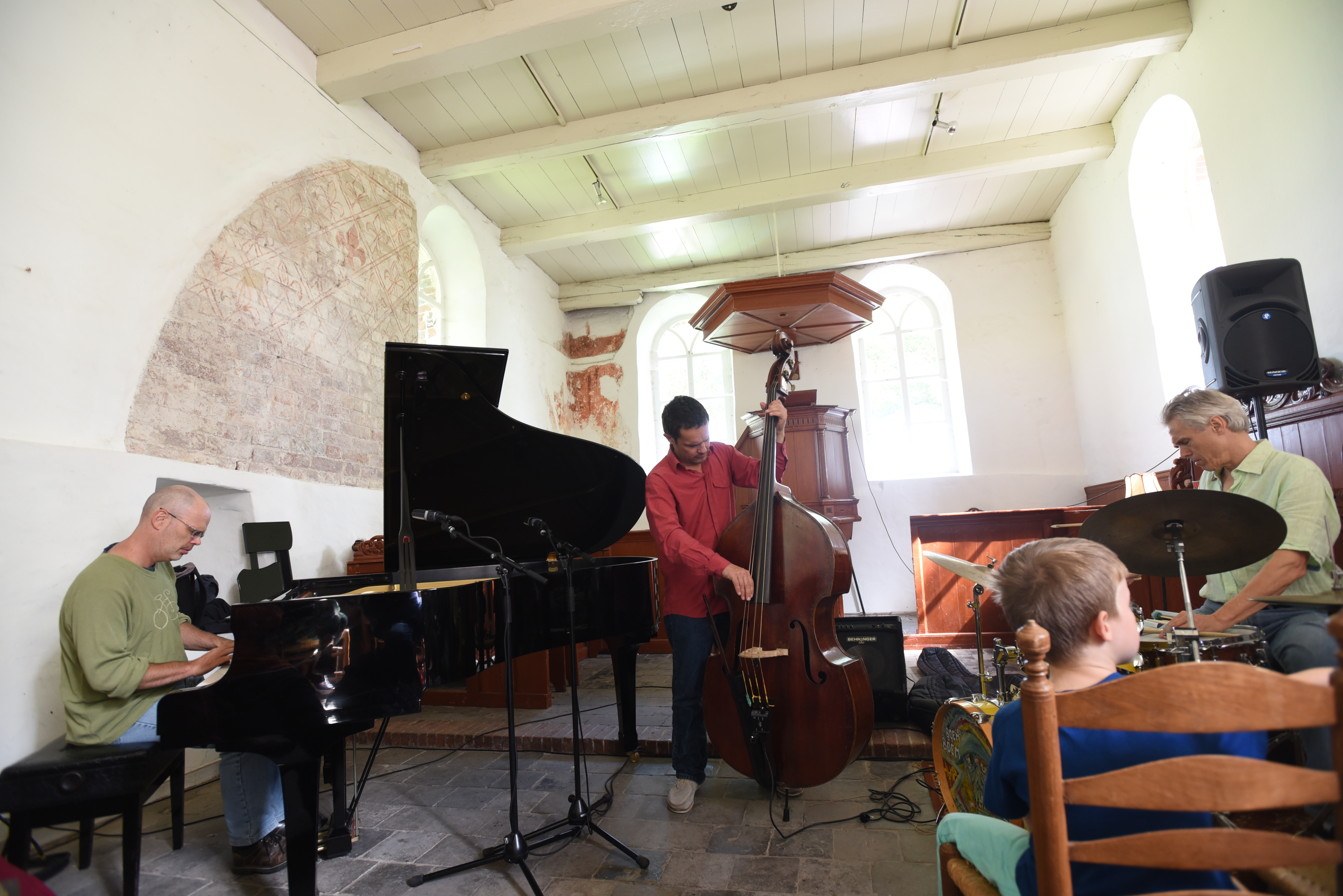 Zomerjazzfietstour 2015: Who Trio